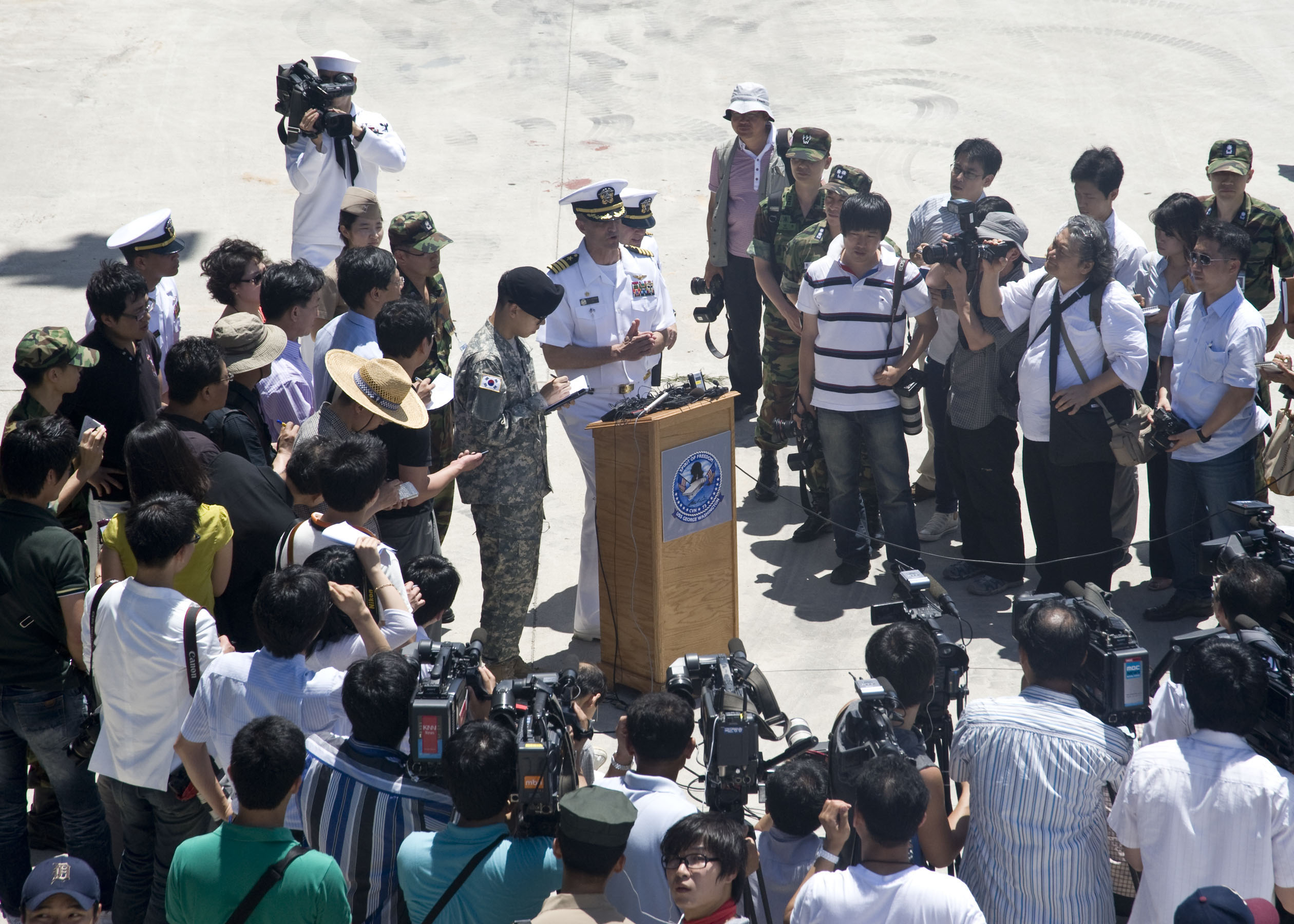 BUSAN, Republic of Korea (July 21, 2010) Capt. David A. Lausman, commanding officer of the aircraft carrier USS George Washington (CVN 73), welcomes a group of journalists to George Washington after arriving in Busan, Republic of Korea. This is the first port visit for George Washington during its 2010 summer patrol in the western Pacific Ocean and the second visit to Busan by the ship since October 2008. The Republic of Korea and the United States will conduct a combined alliance maritime and air readiness exercise "Invincible Spirit" in the seas east of the Korean peninsula from July 25-28, 2010. This is the first in a series of joint military exercises that will occur over the coming months in the East and West Seas. (U.S. Navy photo by Mass Communication Specialist 3rd Class Jeffrey Stewart/Released)